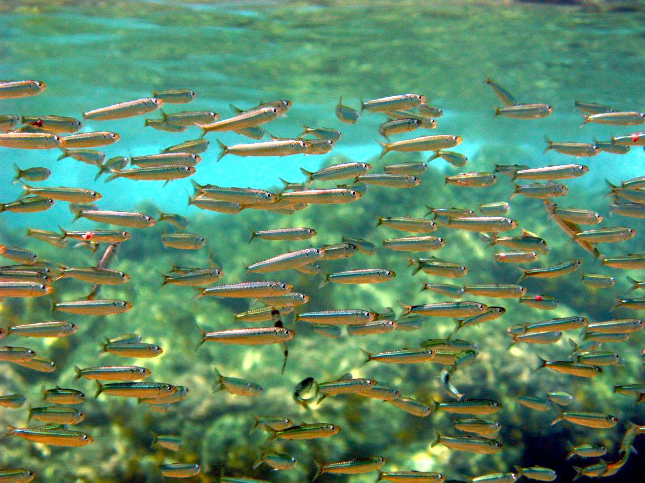 Sardina pilchardus photographed in Ligurian sea (Italy) by Alessandro Duci.